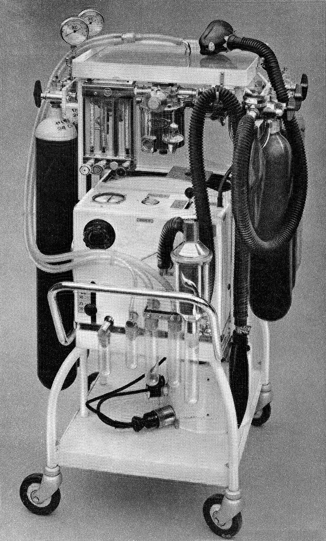 East-Radcliffe Respirator, model C.A.P.I. Wellcome Images Keywords: respirators, 20th century